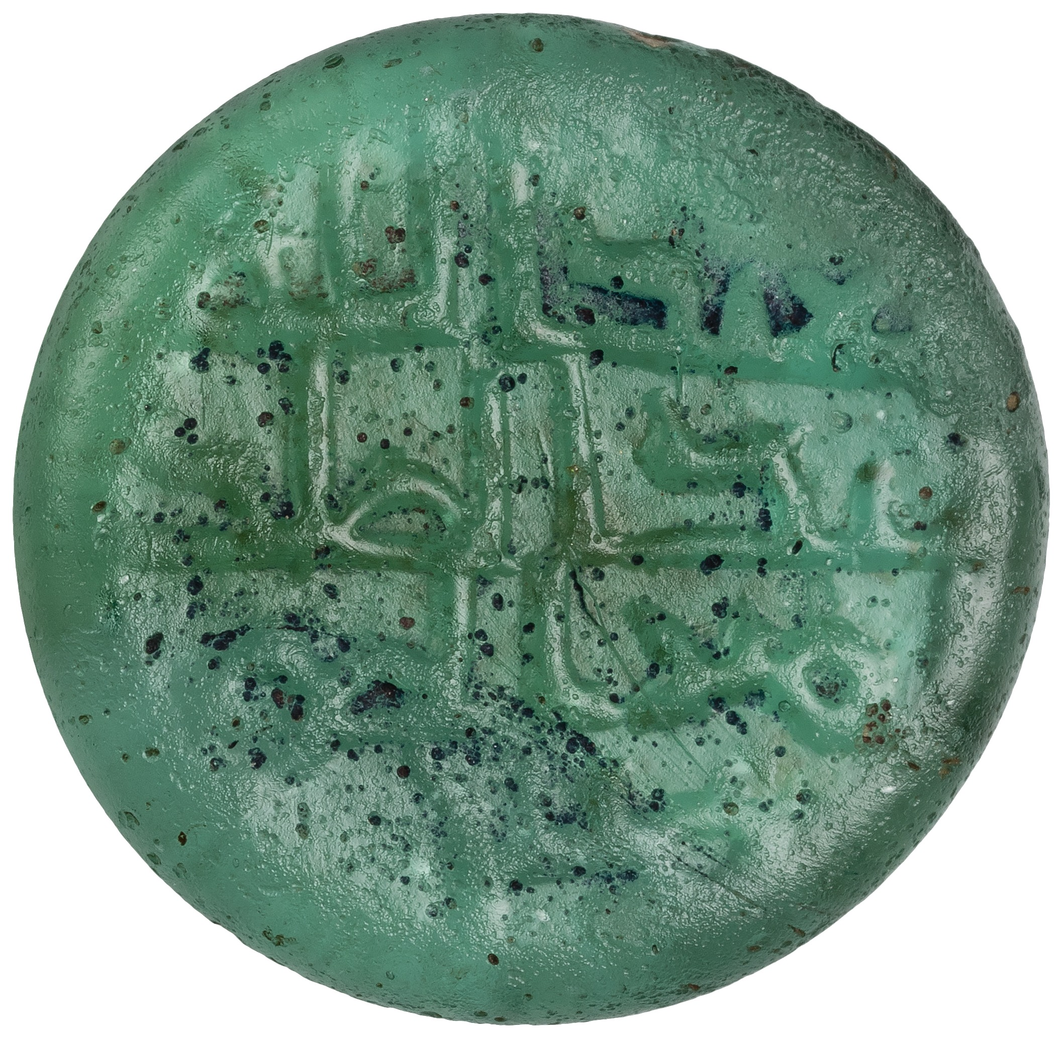 The obverse of a glass coin weight inscribed with the name of Caliph Abd al-Malik ibn Marwan (r. 685-705). The inscription, in Arabic, reads: “li-`Abd Allah `Abd al-Malik Amir al-Mu'minin (The servant of God, Abd al-Malik, Commander of the Faithful). The weight was produced in Damascus, Syria. The weight is for a half-dinar and is currently housed by the American Numismatic Society in New York. For information about the weight, see the following sources: Rambach, Arianna D’Ottone (September 2016). Arabic Glasses (coin weights, jetons and vessel stamps) from Umayyad Syria in T. Goodwin (ed.), Coinage and History in Seventh Century Near East 5. Proceedings of the 15th Seventh Century Syrian Numismatic Round Table held at Corpus Christi College, Oxford. pp. 176-177, 181. Norweb, Jr., Henry R (1991). Annual report of the American Numismatic Society. page 17.